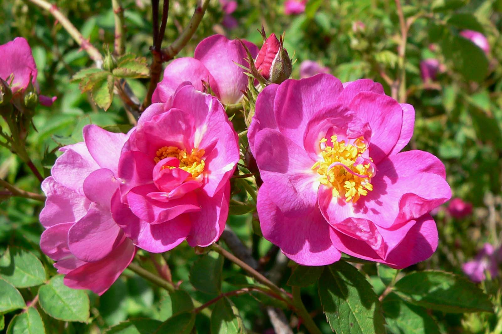 Photo of Rosa 'Theano' at the San Jose Heritage Rose Garden